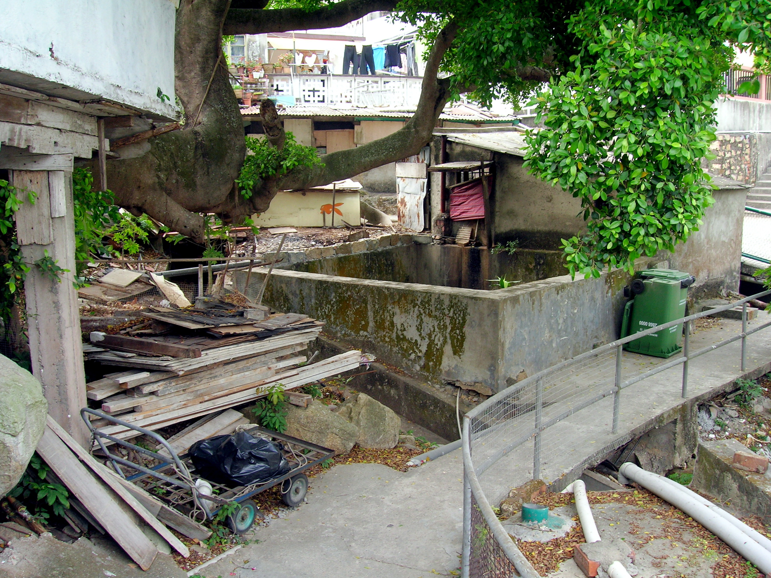 Yung Shue Wa Bay tenements at Lamma Island